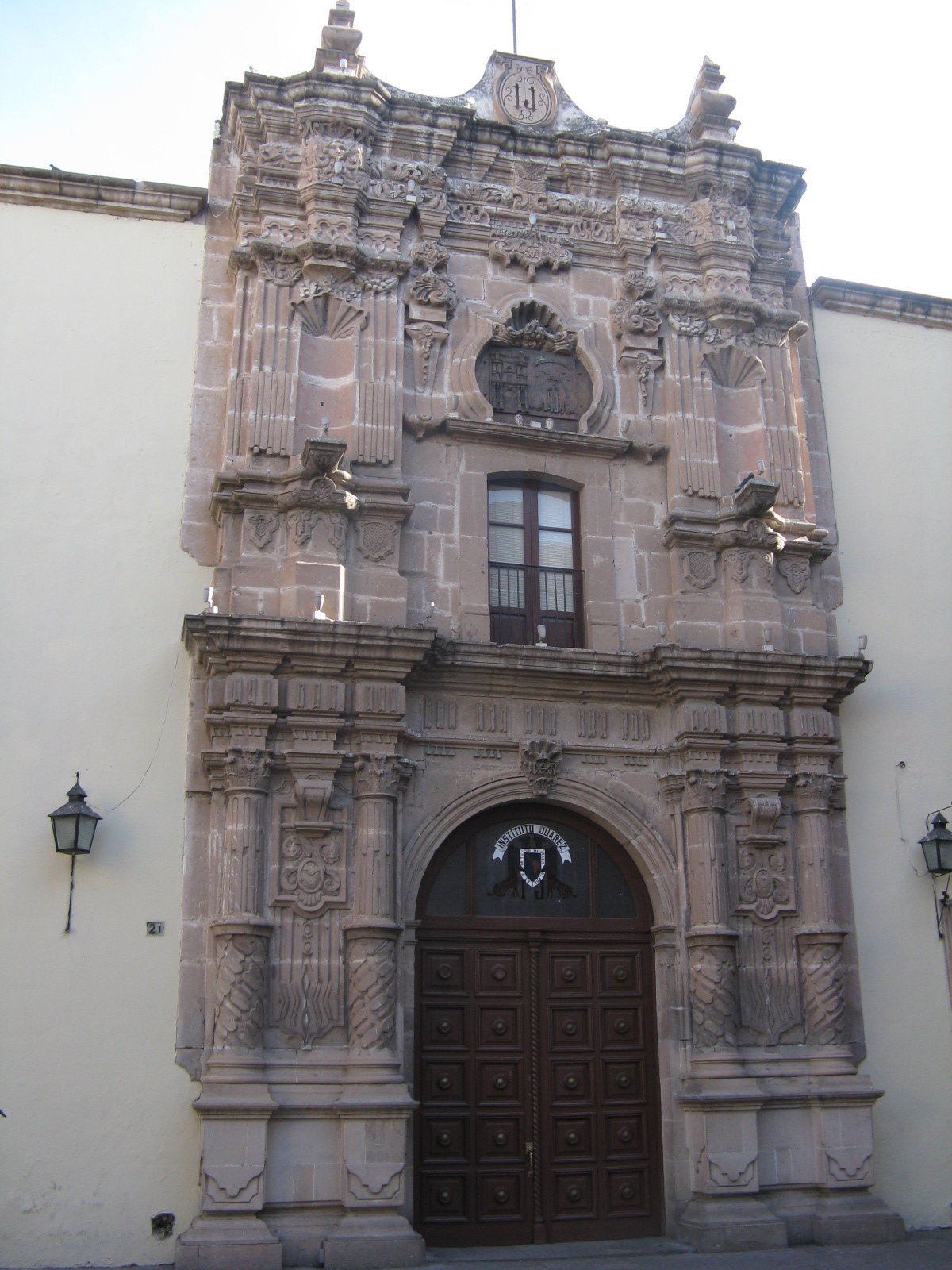 Front of Juárez University at Victoria de Durango, DGO (Mexico). Former Society of Jesus school.